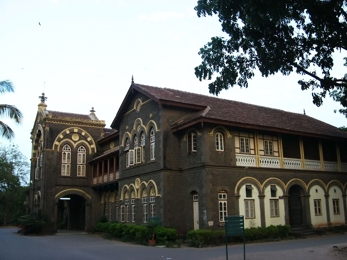 Fergusson College (the main building), photograph by Mukul Hinge, personal archives, free to use.